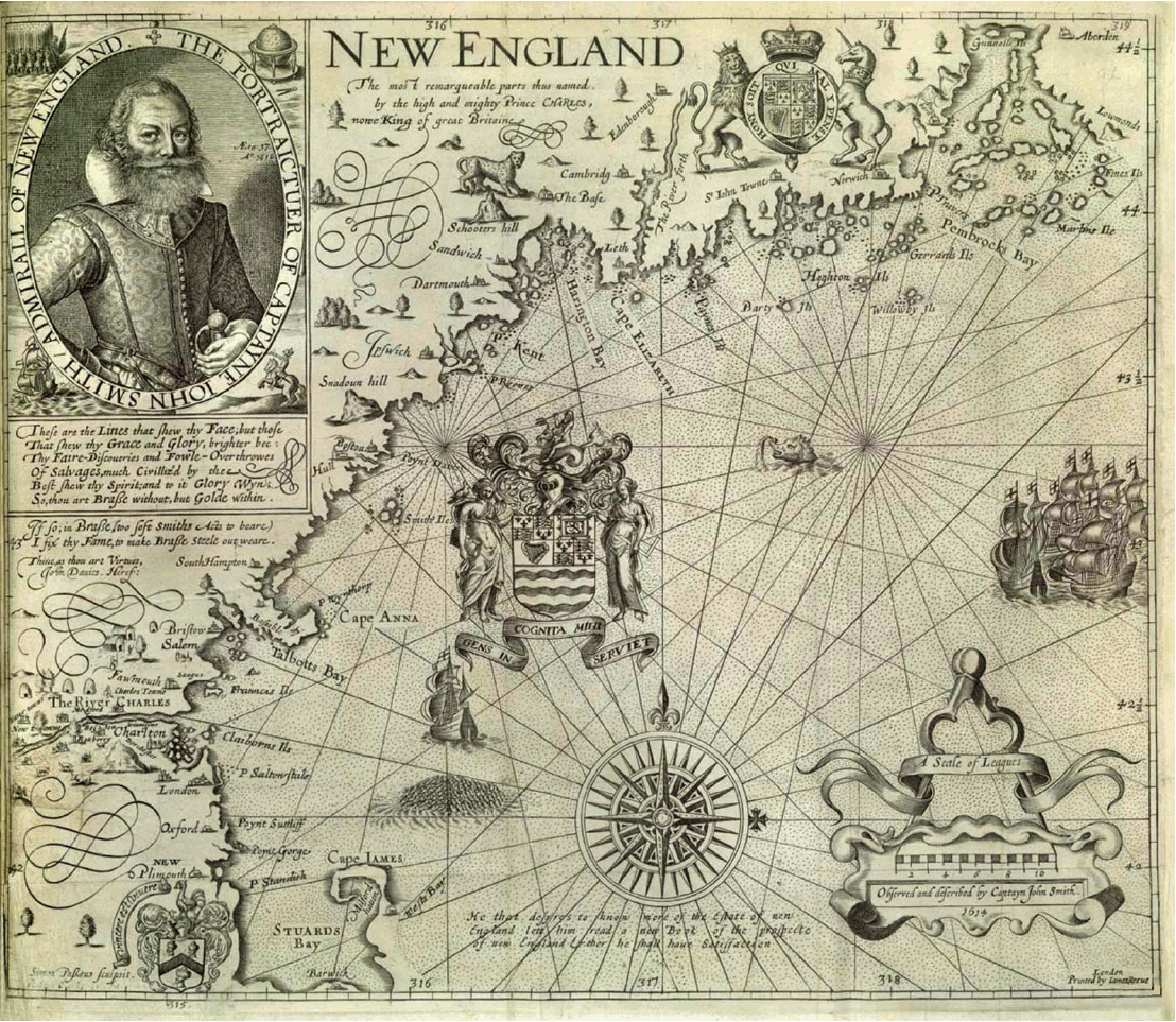 Map of New England